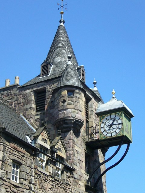 Canongate Tolbooth clock The tower and clock are Victorian additions to the original 16th-century building.